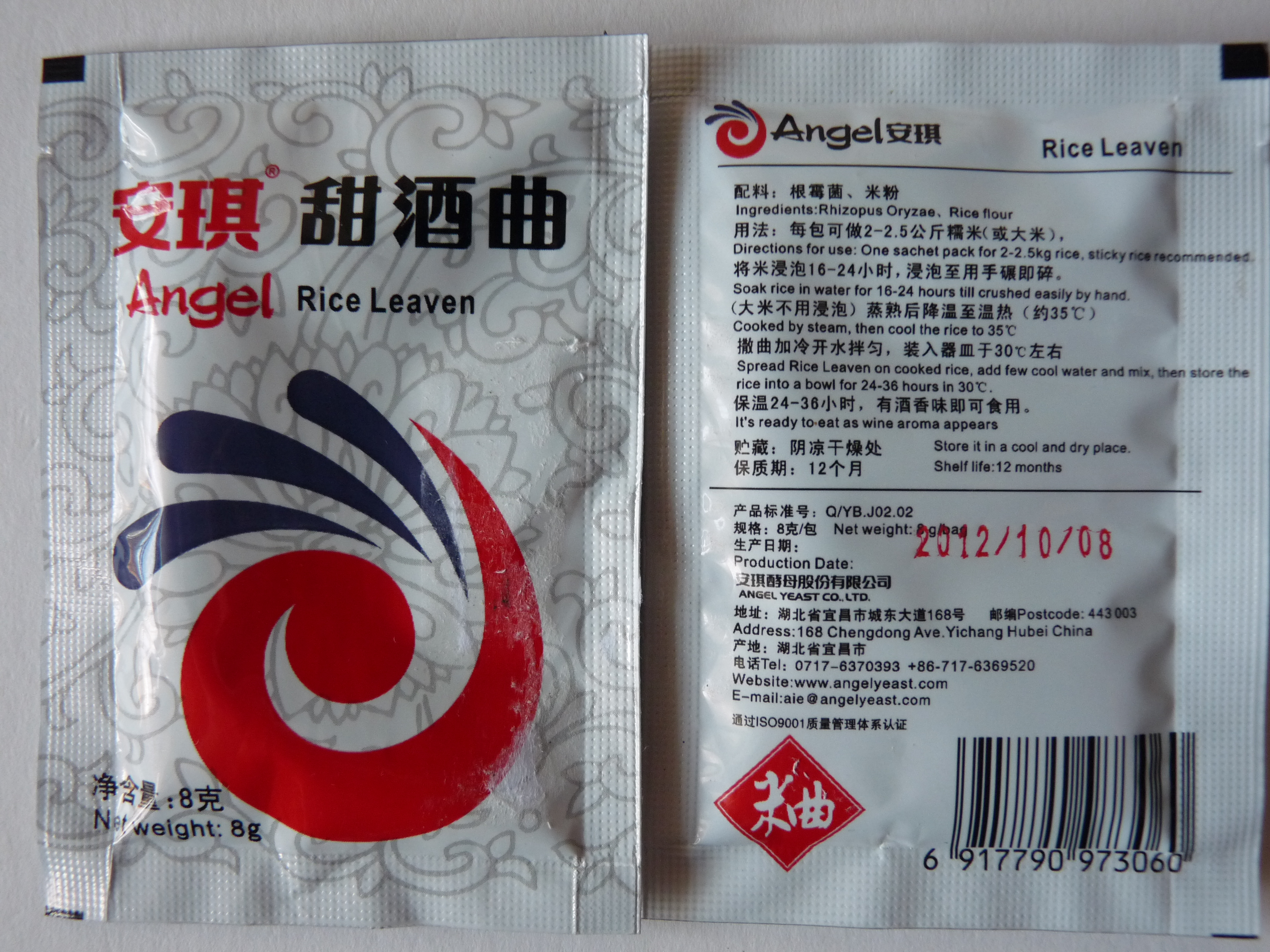 Jiuqu - Angel Brand (contains monoculture Rhizopus oryzae